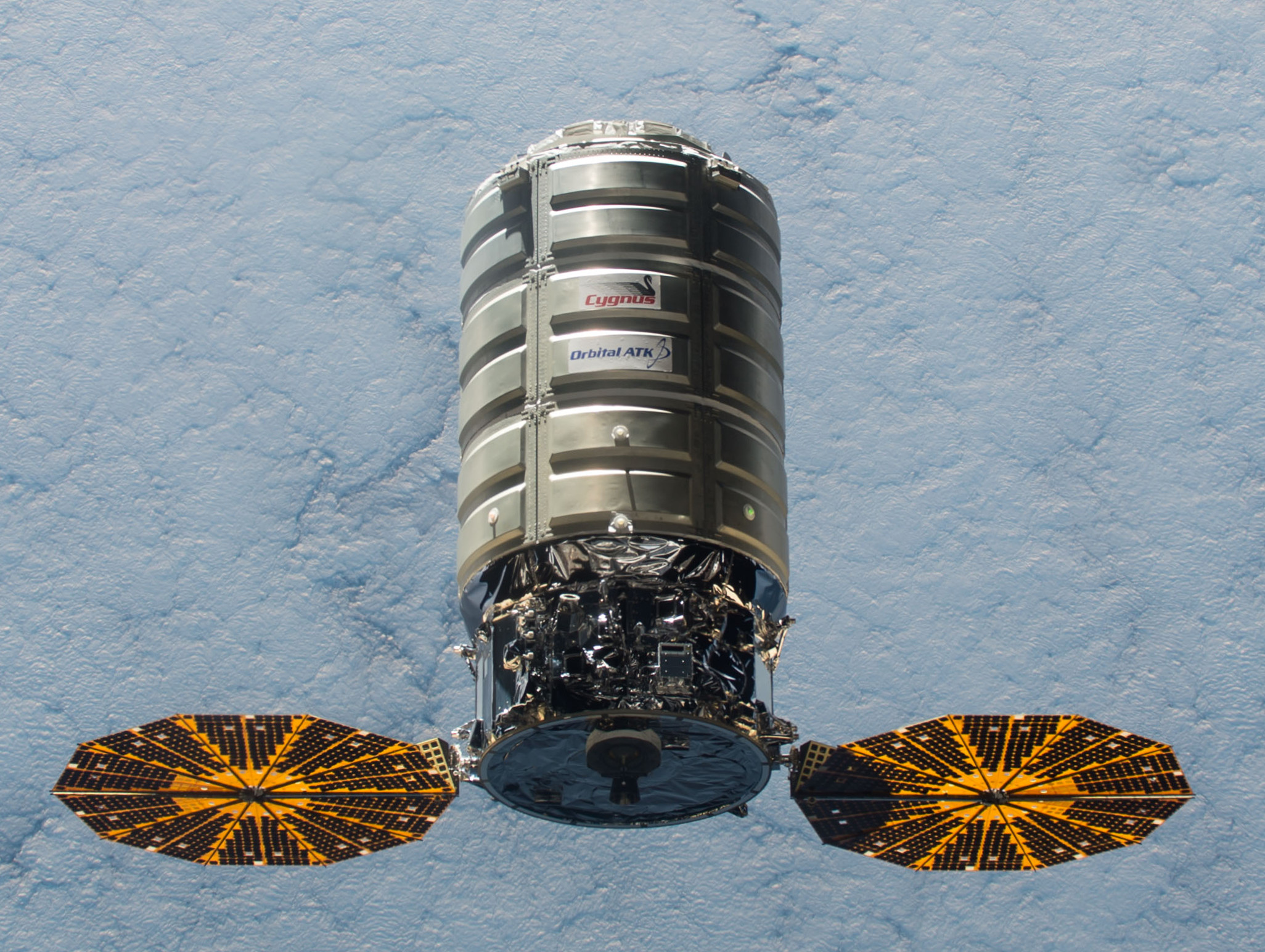 Using the International Space Station's robotic arm, Canadarm2 (right) NASA Flight Engineer Kjell Lindgren prepares to capture Orbital ATK's Cygnus cargo vehicle Dec. 09, 2015. The space station crew and the robotics officer in mission control in Houston will position Cygnus for installation to the orbiting laboratory's Earth-facing port of the Unity module. Among the more than 7,000 pounds of supplies aboard Cygnus are numerous science and research investigations and technology demonstrations, including a new life science facility that will support studies on cell cultures, bacteria and other microorganisms; a microsatellite deployer and the first microsatellite that will be deployed from the space station; several other educational and technology demonstration CubeSats; and experiments that will study the behavior of gases and liquids, clarify the thermo-physical properties of molten steel, and evaluate flame-resistant textiles.